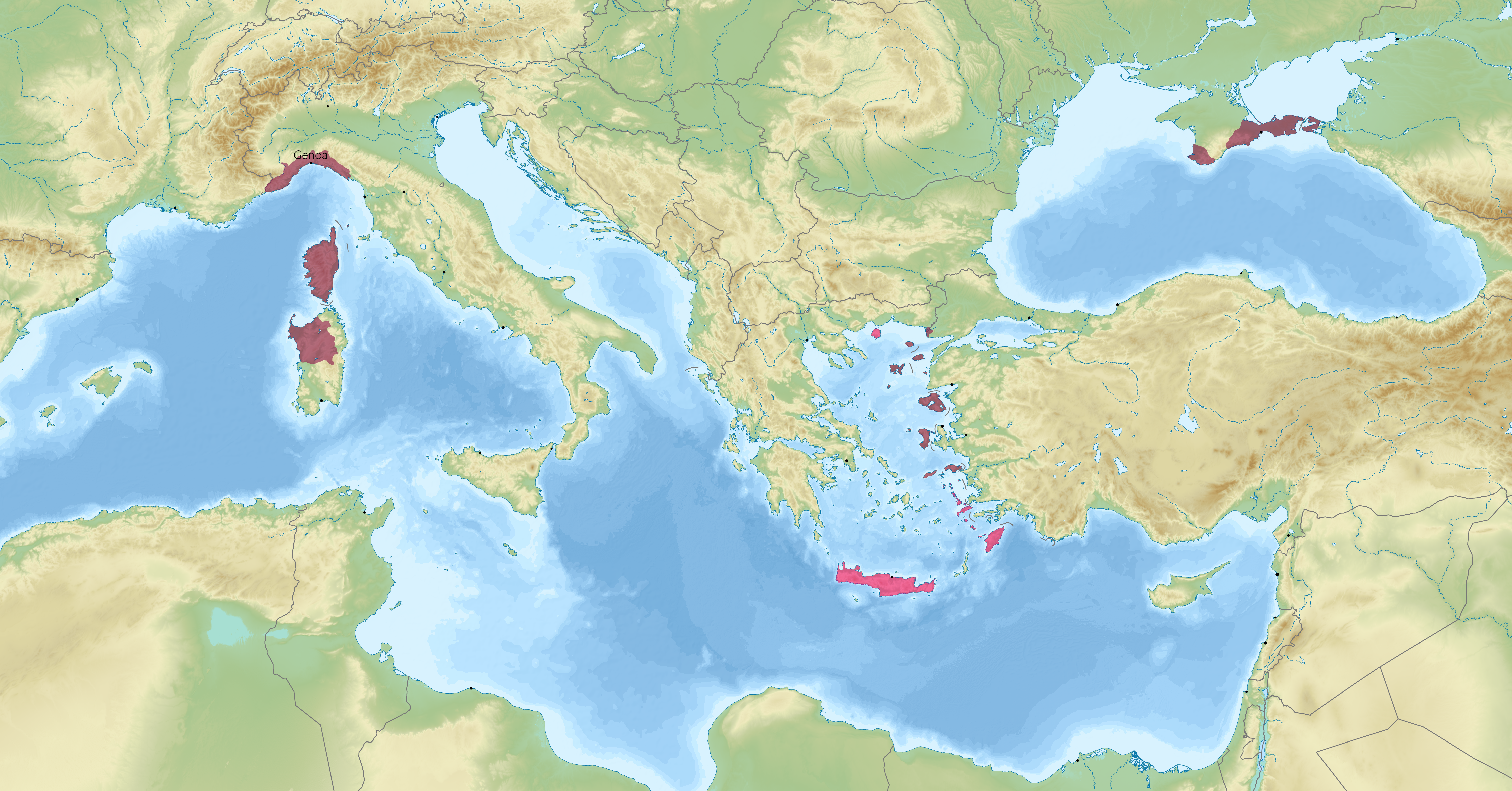 Dark red represents Genoese holdings in the 12th and 13th centuries well the light red were temporary holdings.